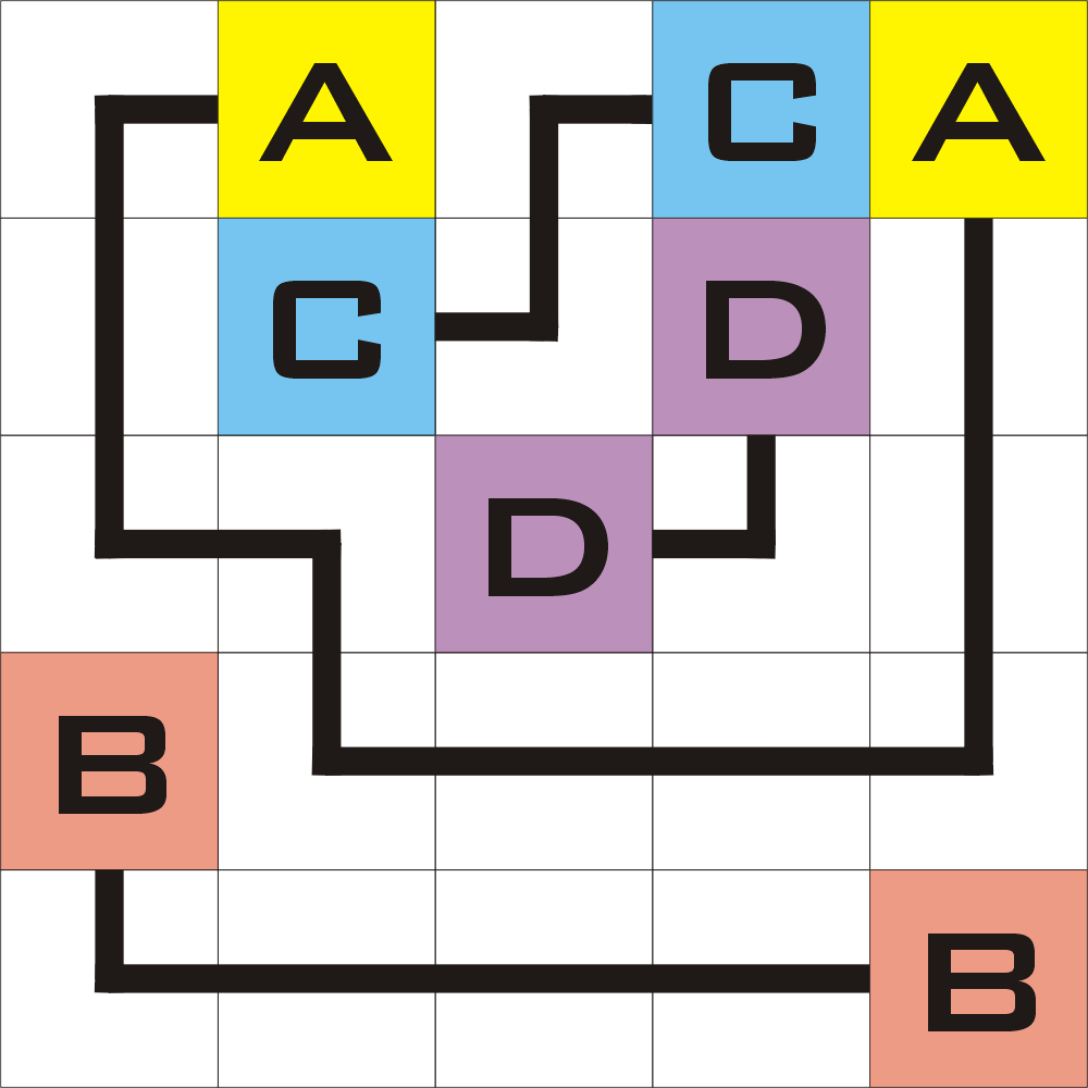 Arukone Logic Puzzle